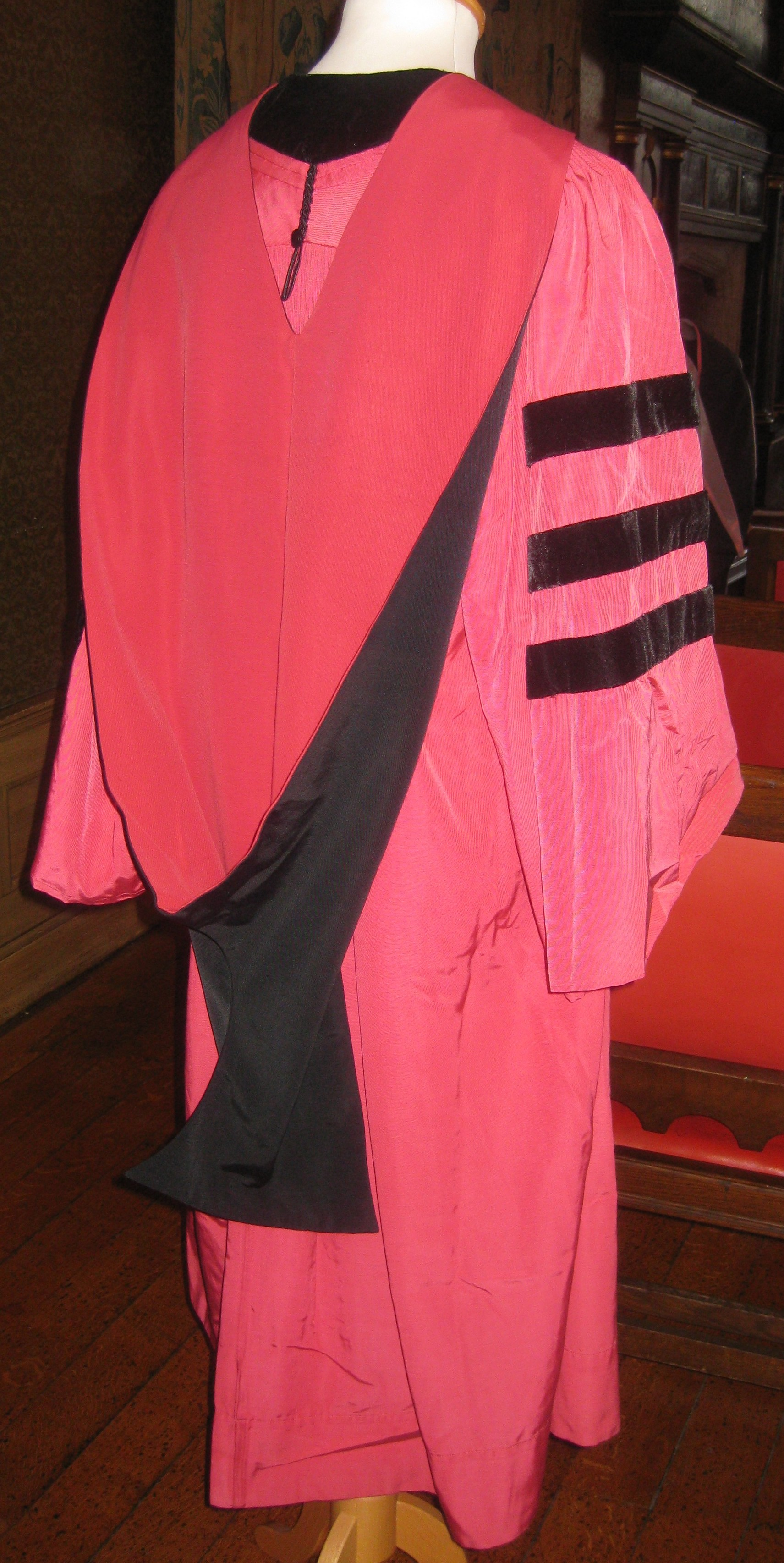 The doctoral gown and hood of a Harvard University doctor of philosophy.